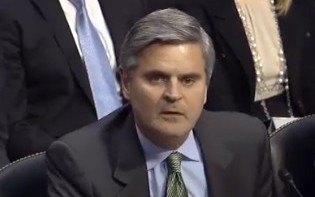 Screenshot of video of Steve Case's testimony before the U.S. Senate Committee on the Judiciary Hearing On 'Comprehensive Immigration Reform', February 13, 2013, starting at 02:25:00